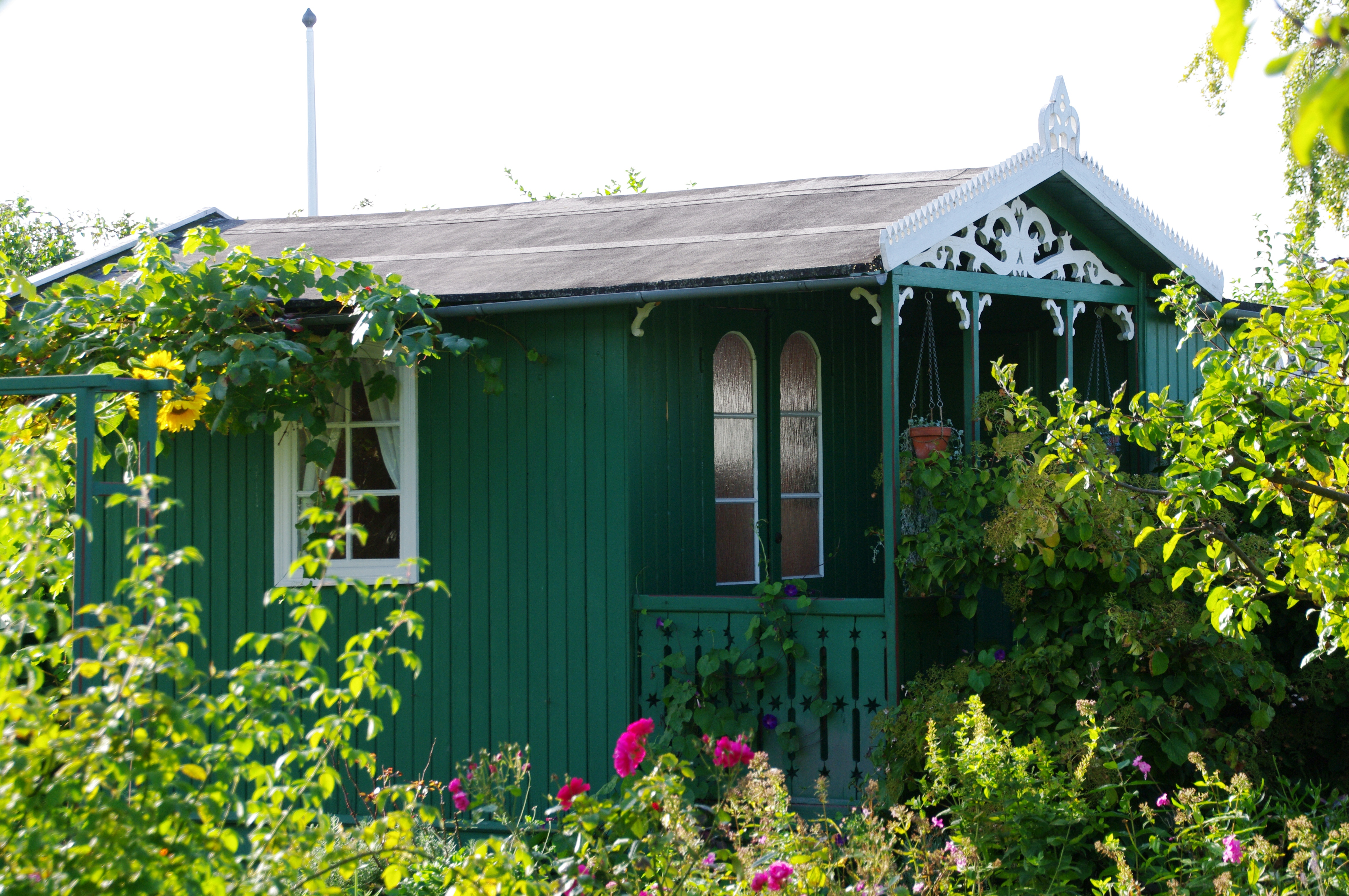 The Rothoff alotment hut from 1903 is the only alotment museum in Sweden. It is placed on the fortification embankments in Landskrona